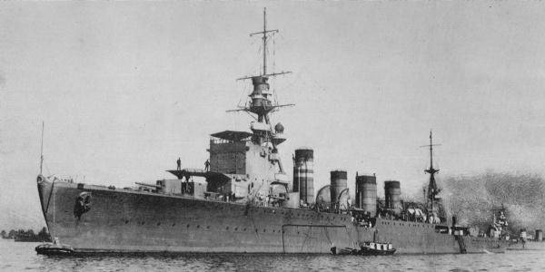 "Jintsu", light cruiser of the Imperial Japanese Navy, anchoring in the Kure Naval Port.